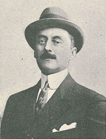 Óscar Blank, the first Portuguese civilian aviator